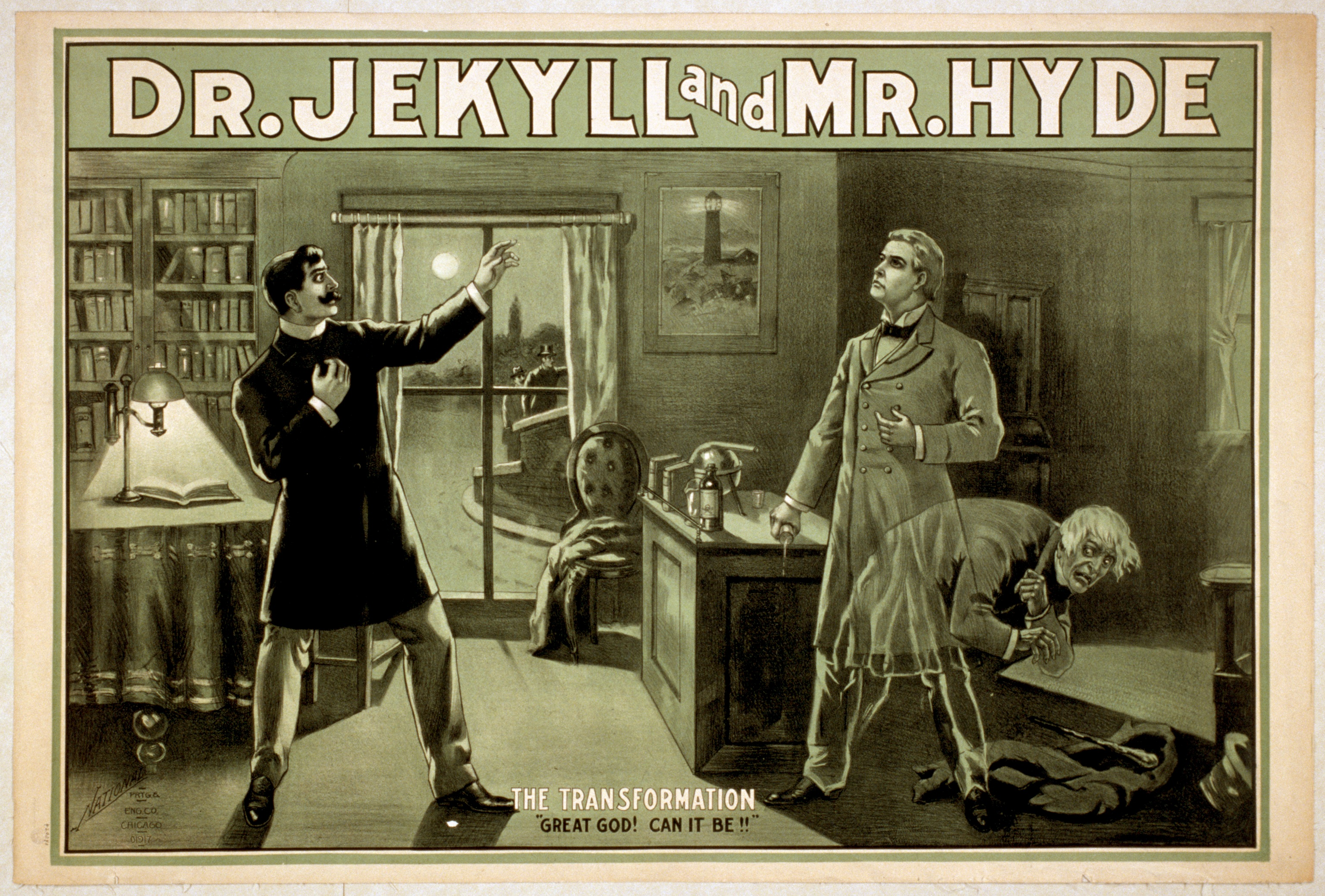 Poster for a theatrical adaptation of Strange Case of Dr Jekyll and Mr Hyde. Converted losslessly from .tif to .png by uploader.